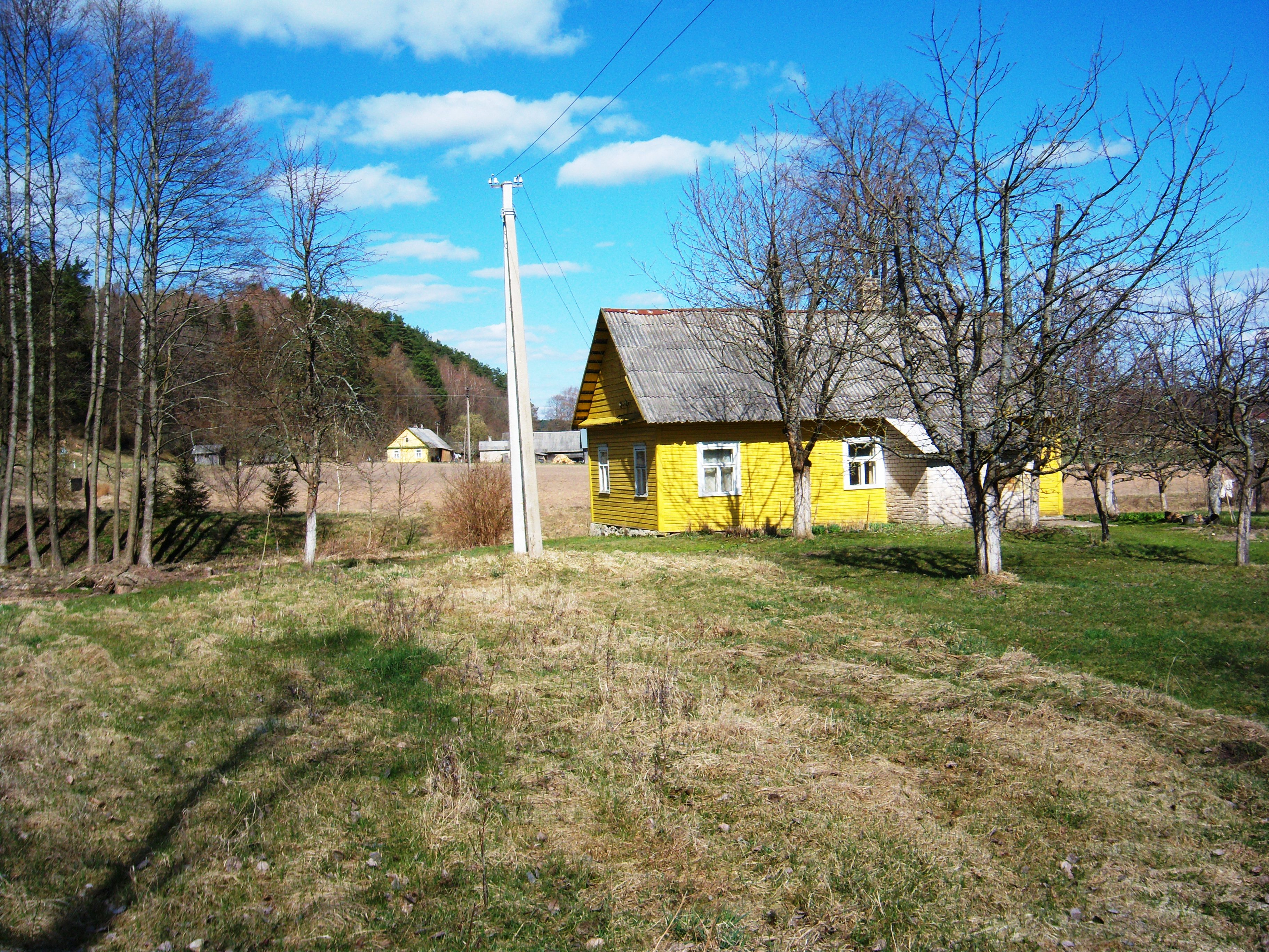 Siponys, Birštonas Municipality, Lithuania